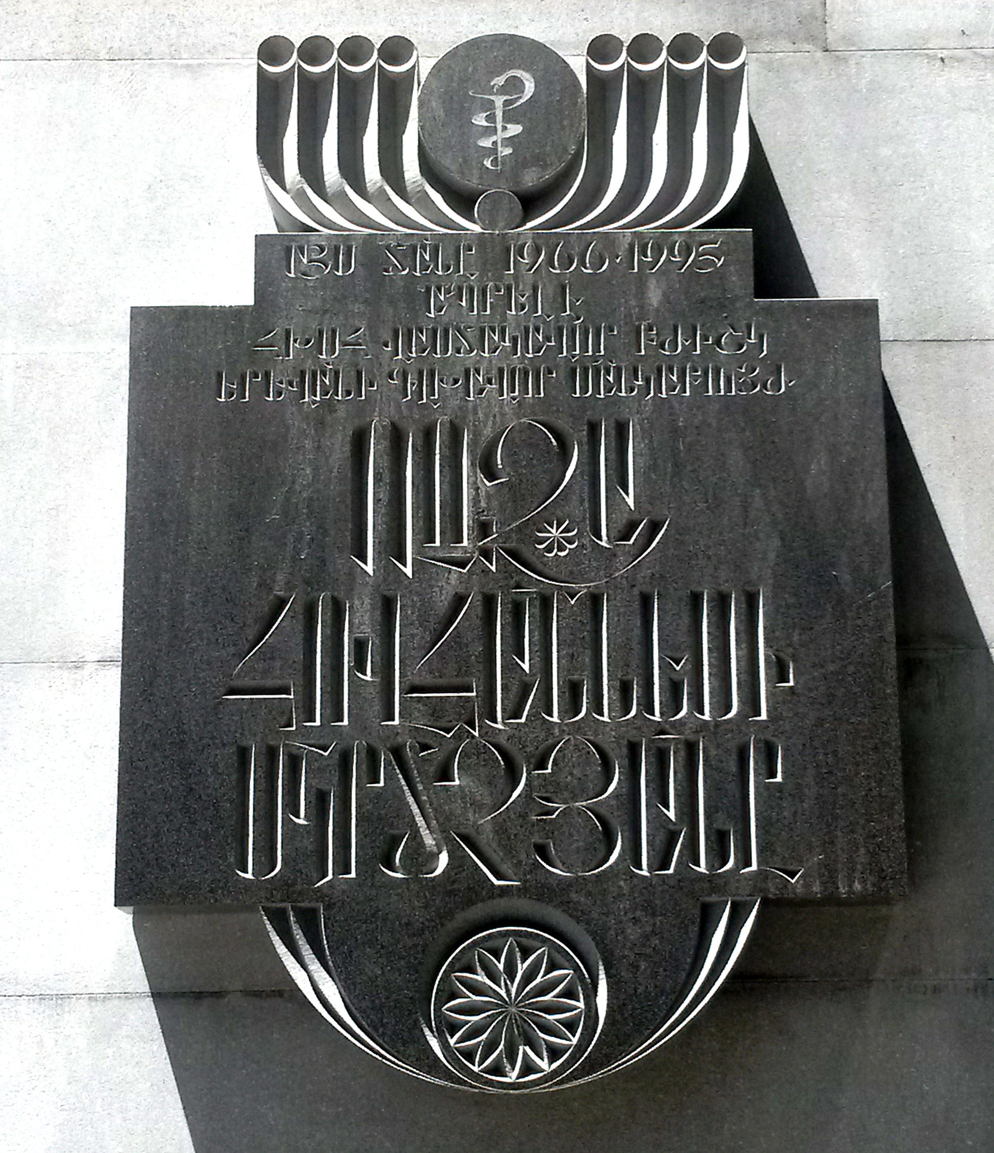 Roza Mkrtchyan's plaque in Yerevan on Mashtots ave. 15